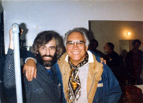 Richard Manuel of The Band with artist Bob Cato backstage at the Beacon Theater in New York